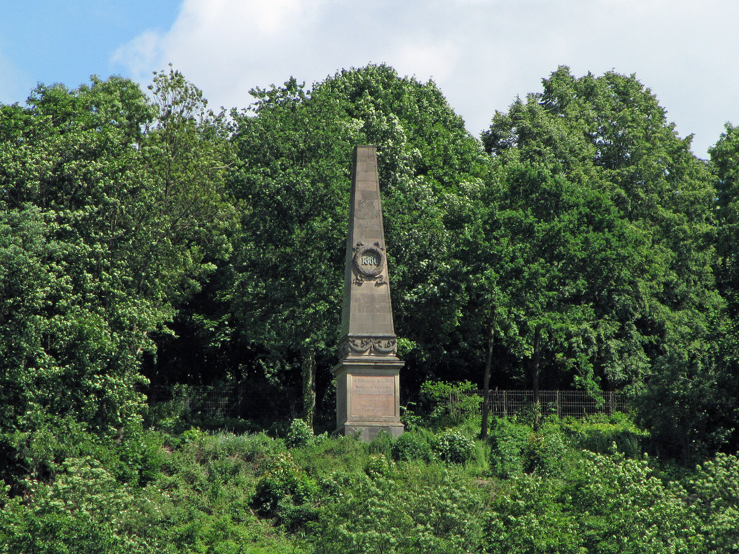 War memorial in Koblenz